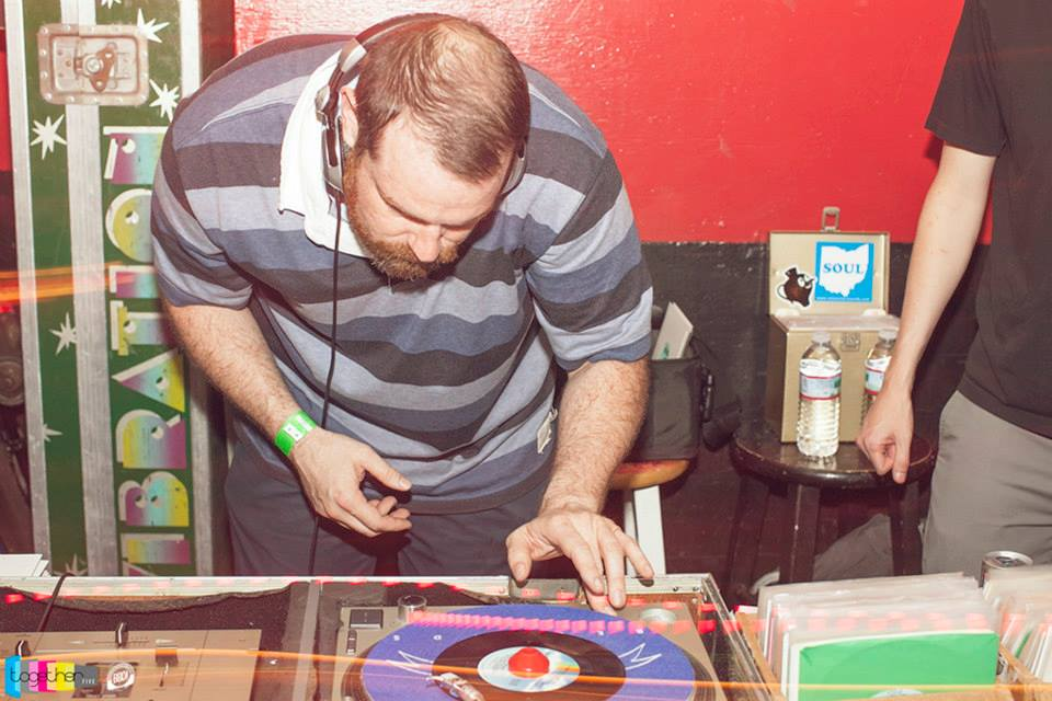 Numero Group with Soulelujah during Together Boston.